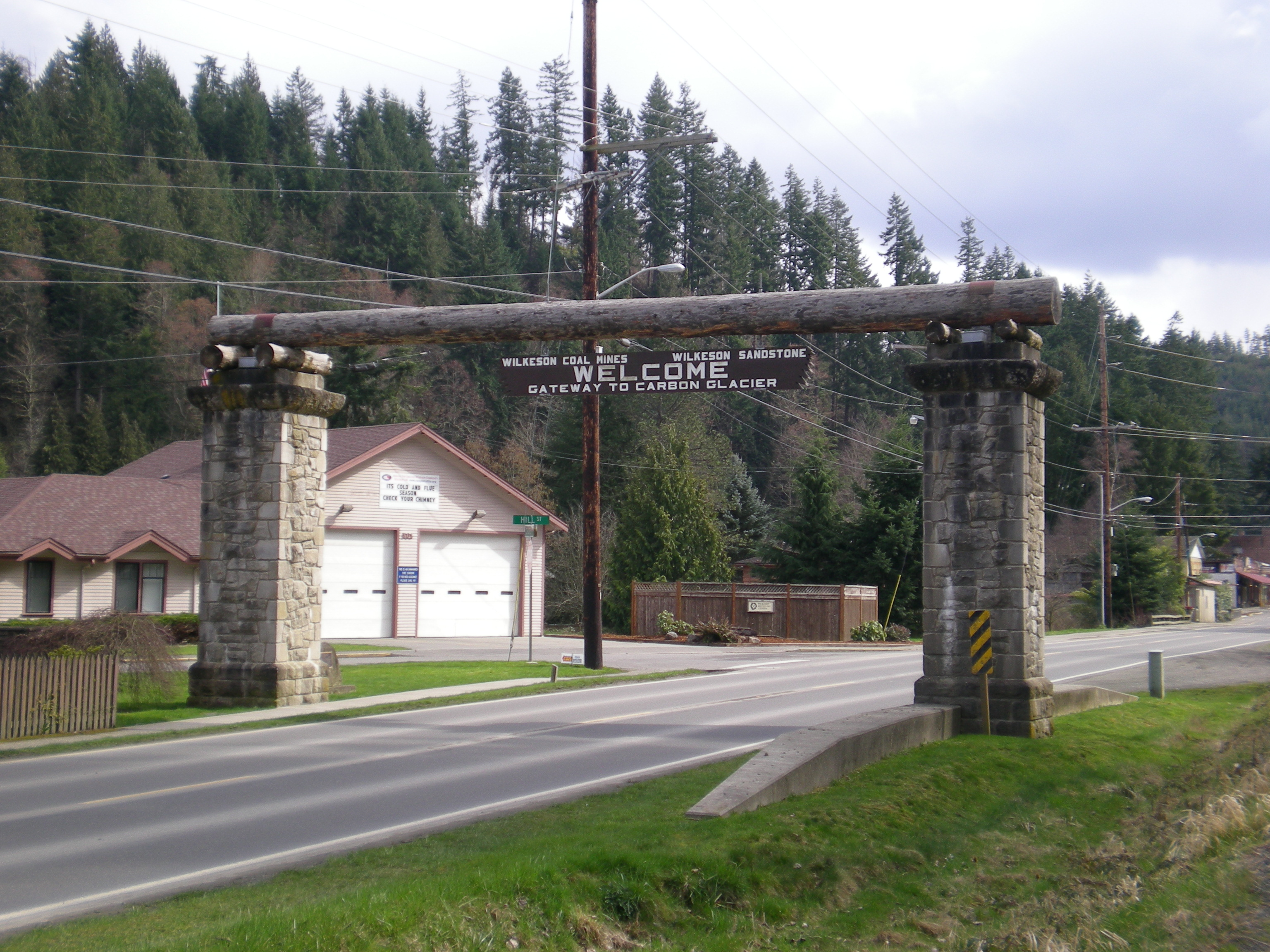 The Wilkeson Arch in Wilkeson, Washington. Fire station at left.